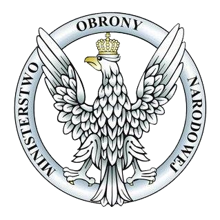 MOD of Poland logo